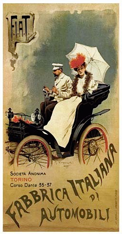 F.I.A.T. Società Anonyma Torino Fabbrica Italiana d'Automobili, lithographic poster, 165 x 110 cm.